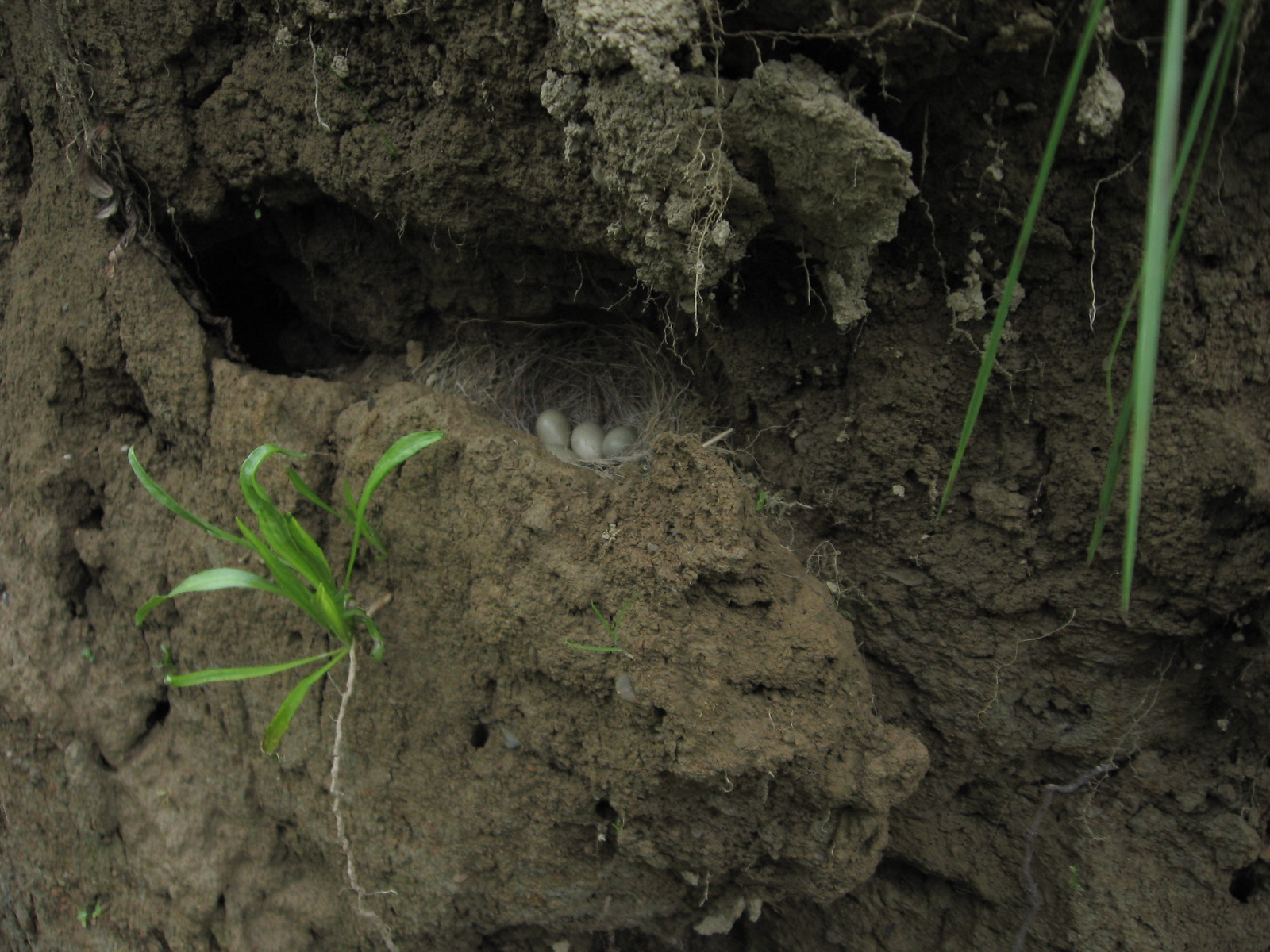 Wagtail nest on a bank-breaking at the river Orke at Medebach-Medelon (Sauerland, North Rhine-Westphalia, Germany)